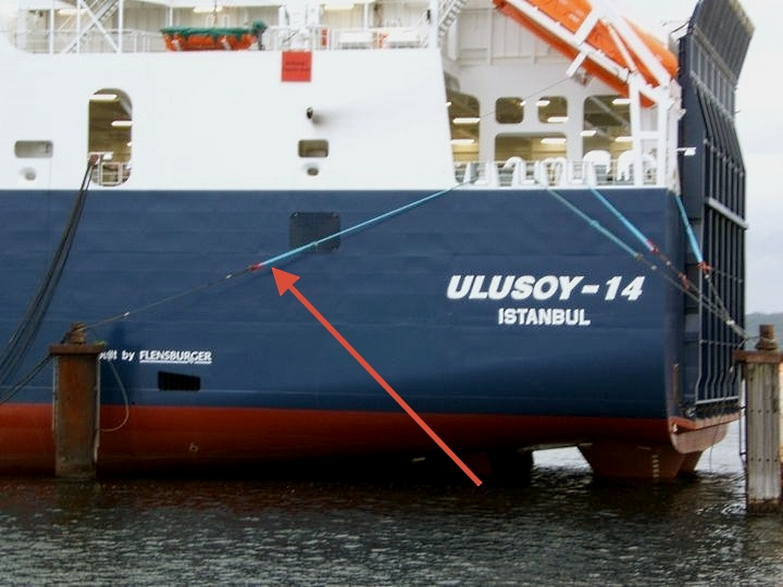 Rear spring of the new Turkish ferry construction ULUSOY-14, Flensburg in October